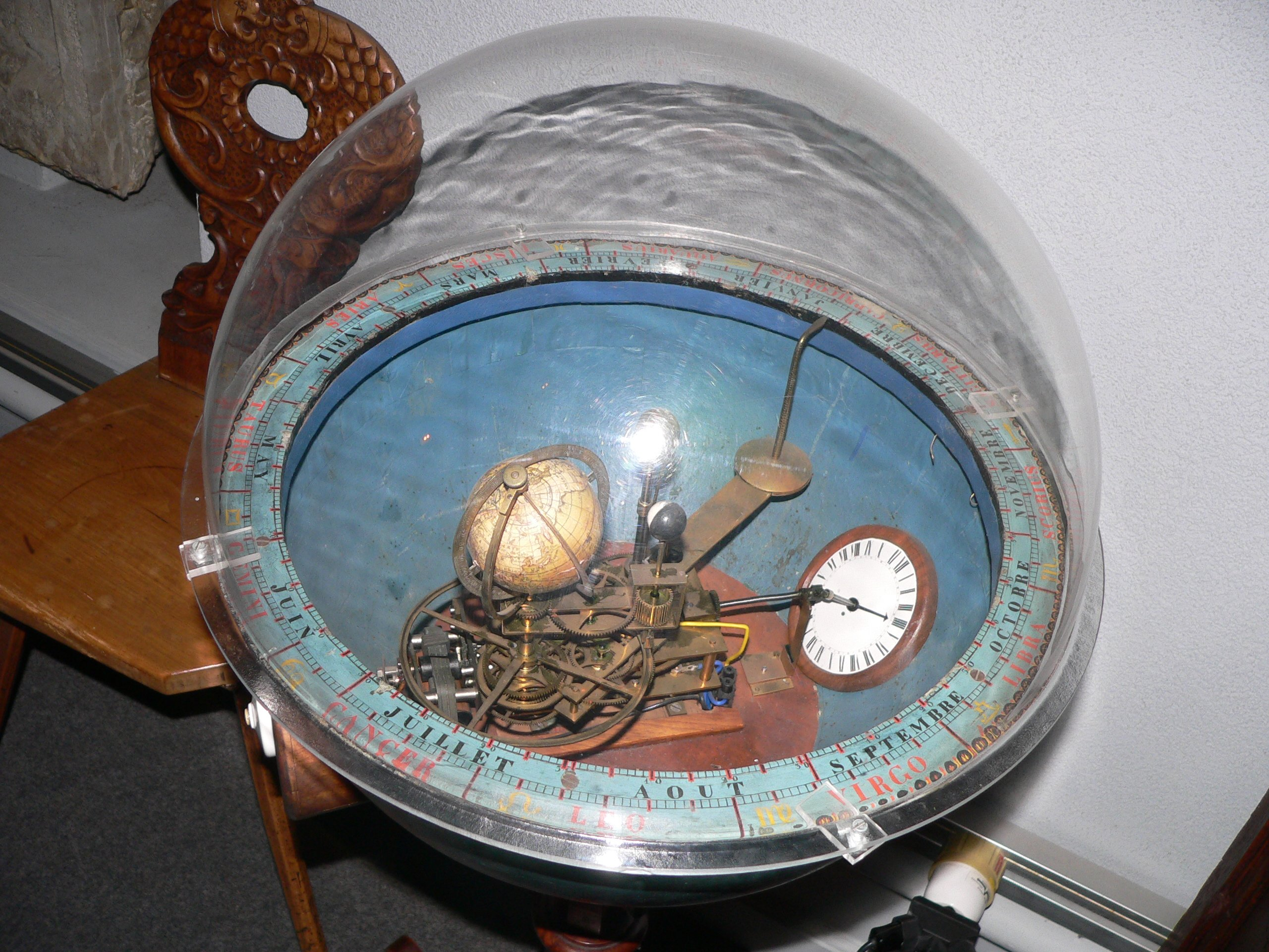 musee d'Art et d'Histoire de Neuchatel